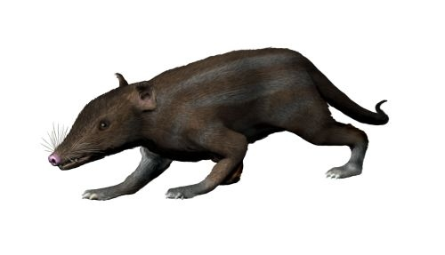 Juramaia